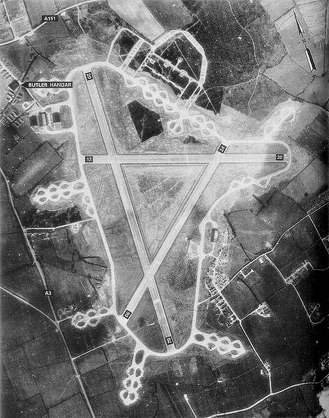 Aerial photograph of North Witham Airfield, England.